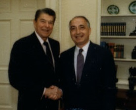 Ronald Reagan and John Florian Kordek in Oval Office